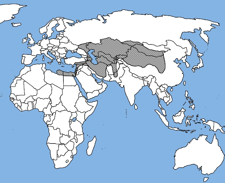 The geographic range of the Long-eared Hedgehog.